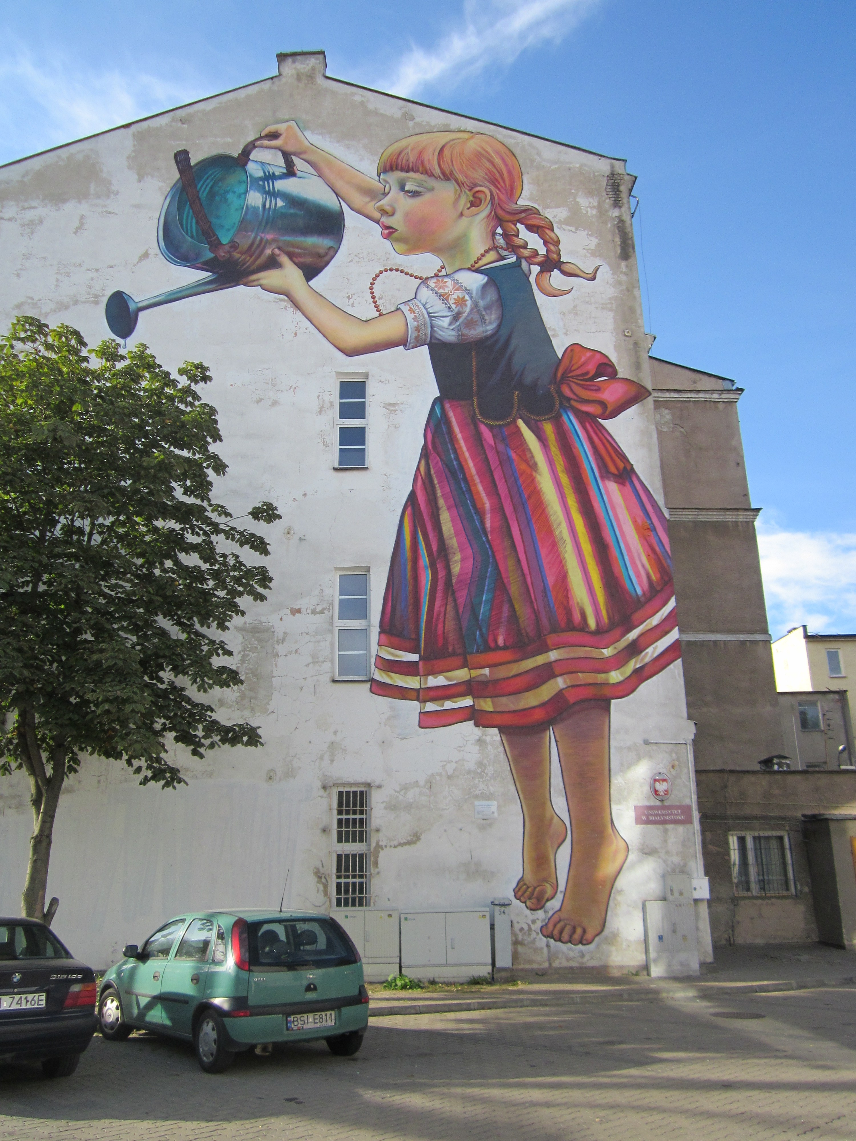 Girl with a watering - mural in Białystok, at Piłsudskiego Avenue